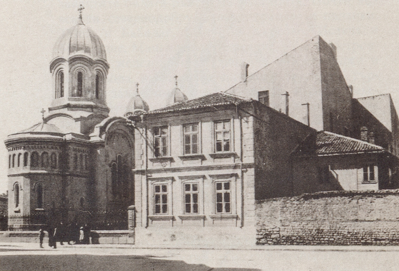 Bulgarian church and school in Konstanta, beginning of 20 century